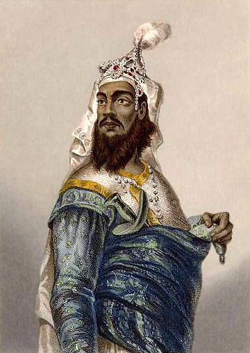 "Kooer Sing," a steel engraving from 'The Indian Empire', c.1858, with modern hand coloring Source